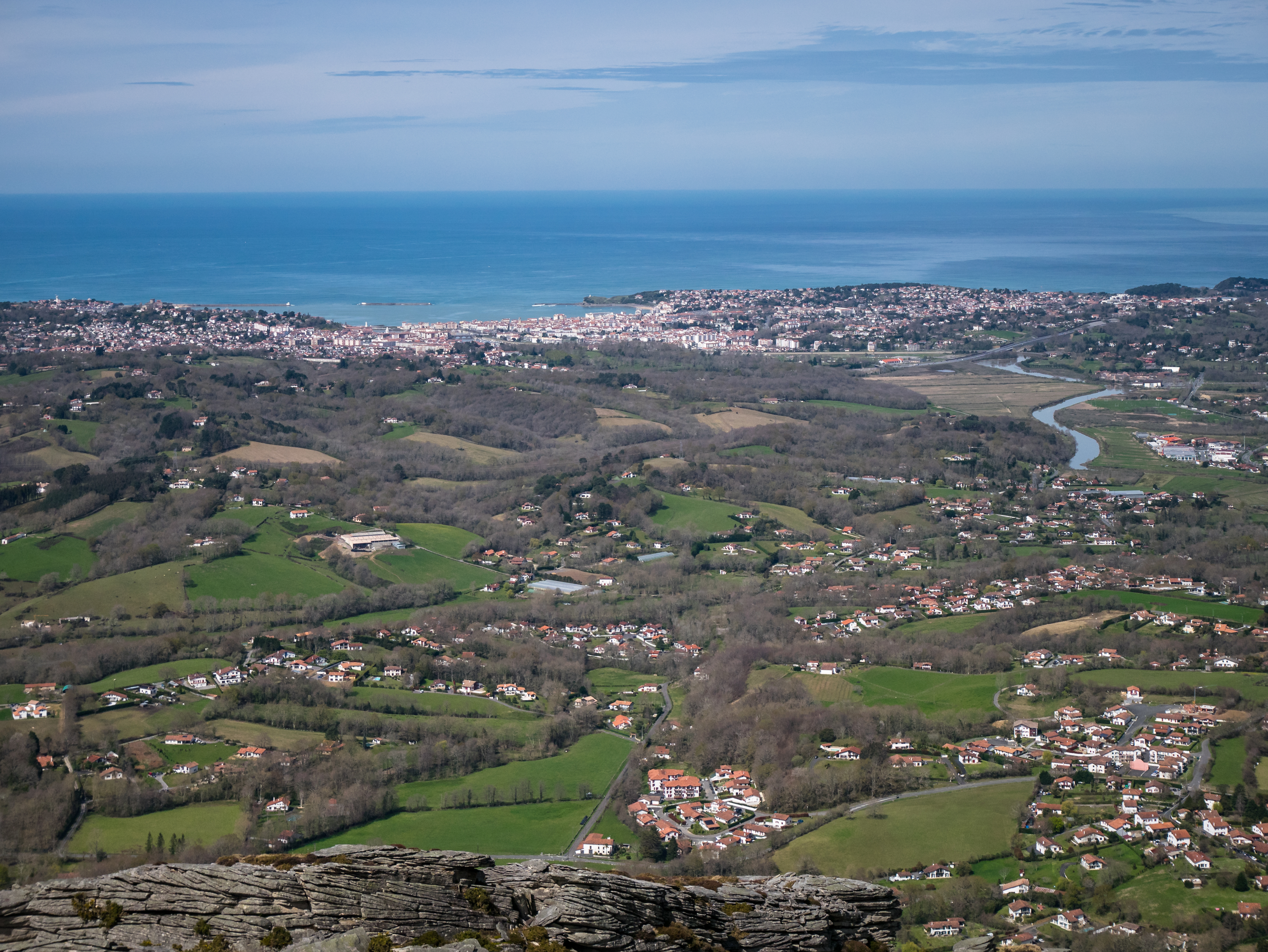 Saint-Jean-de-Luz as seen from the Larrun area. Pyrénées-Atlantiques, France